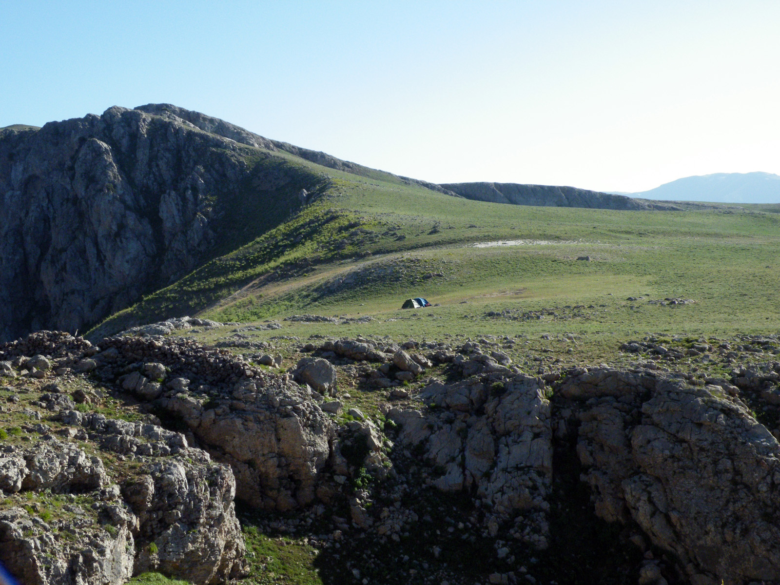 Pulatkhan east side precipeces. Tashkent area, Uzbekistan.